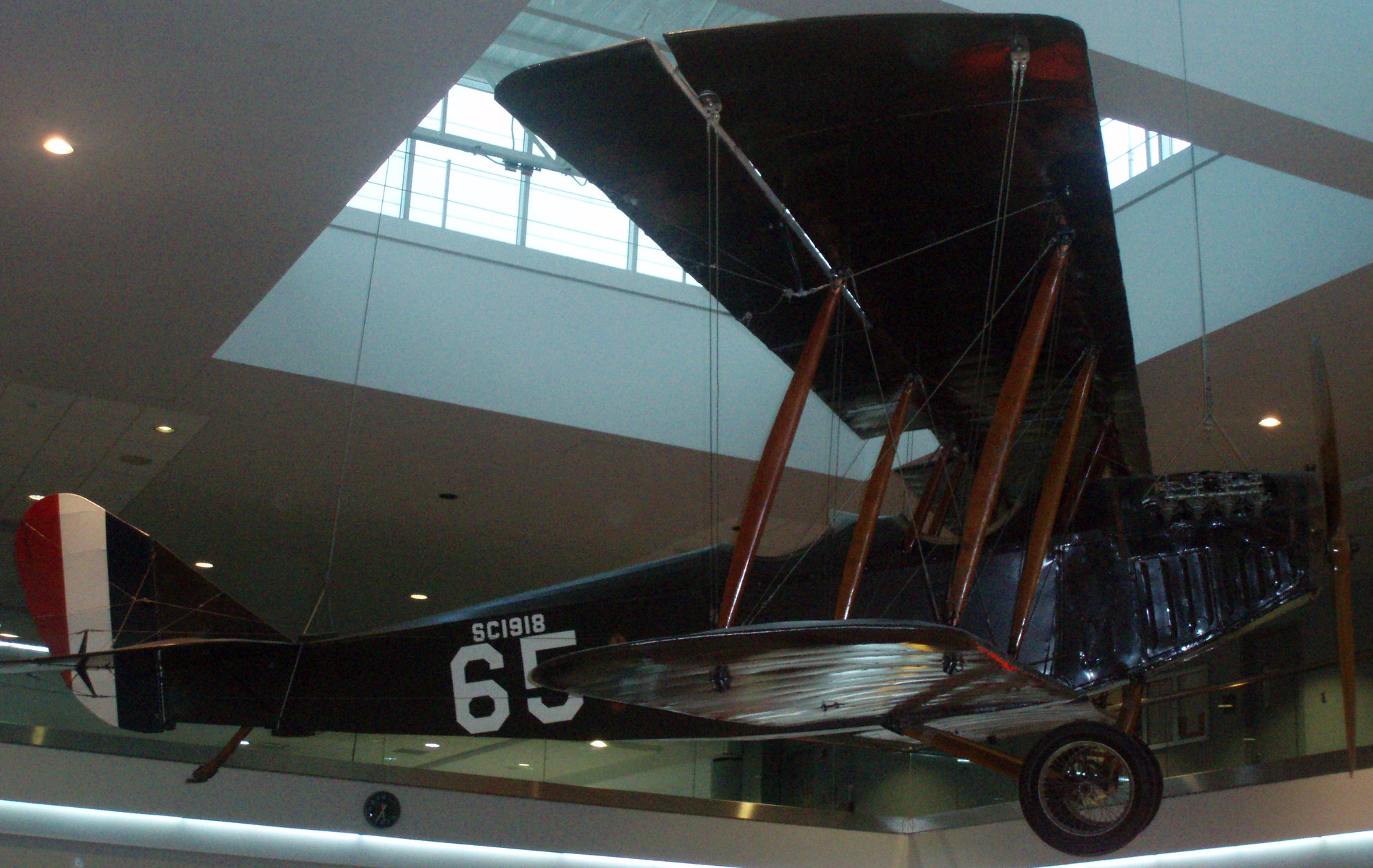 1918 Curtiss Jenny JN-4D, currently on display at the Denver International Airport. This version restored by the Antique Airplane Association of Colorado.